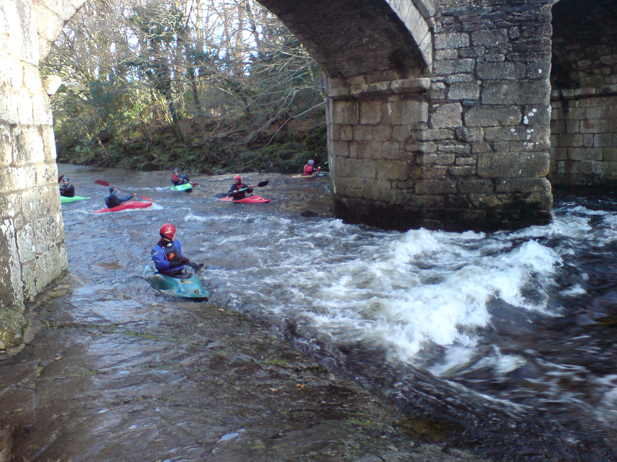 Author: Jamsta